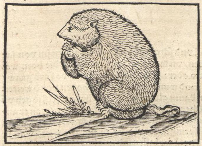 Marmota marmota (Alpine Marmot) graphics from Cosmographia (Sebastian Münster, 1545)